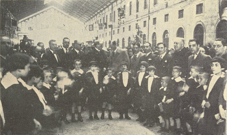 Christmas party for the families of the railway workers, organized by the government and the Companhia dos Caminhos de Ferro Portugueses (Portuguese Railways Company), that took place in the Santa Apolónia train station, in Lisbon, on the 27th December 1936. This photograph was published on the Gazeta dos Caminhos de Ferro magazine No. 1177, of the 1st January 1937, and scanned by the Hemeroteca Municipal de Lisboa.